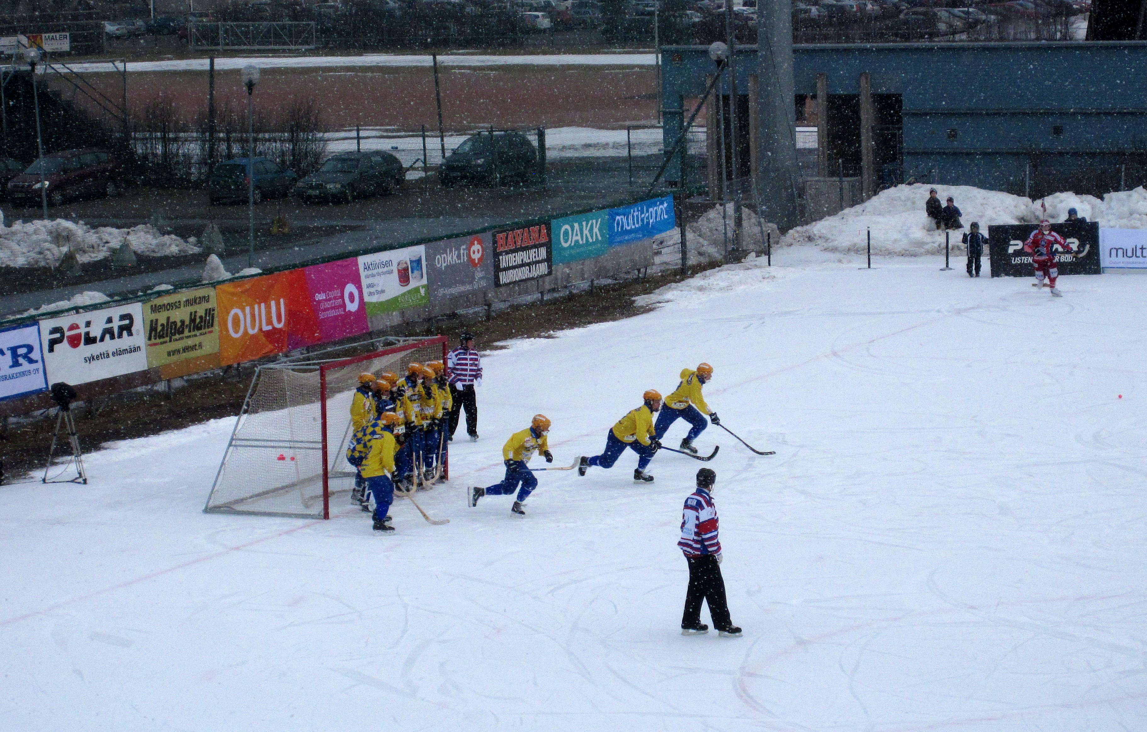 The 2014 Bandyliiga Final was played at the Raksila artificial ice rink in Oulu. The final was played between Oulun Luistinseura (OLS) and Jyväskylän Seudun Palloseura(JPS), OLS got the championship with the result 4-2.